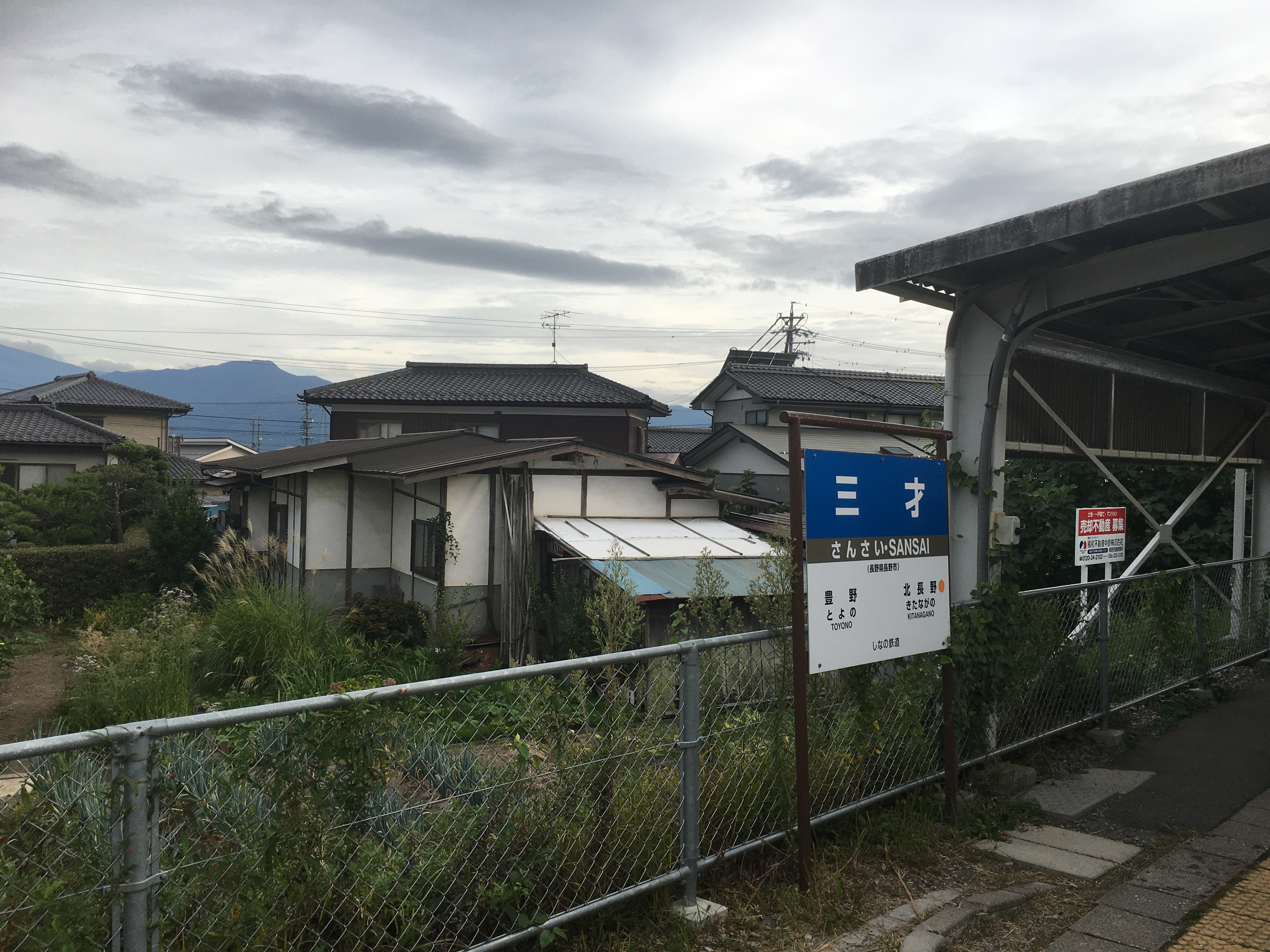 三才駅のホーム (Sansai Station platform)